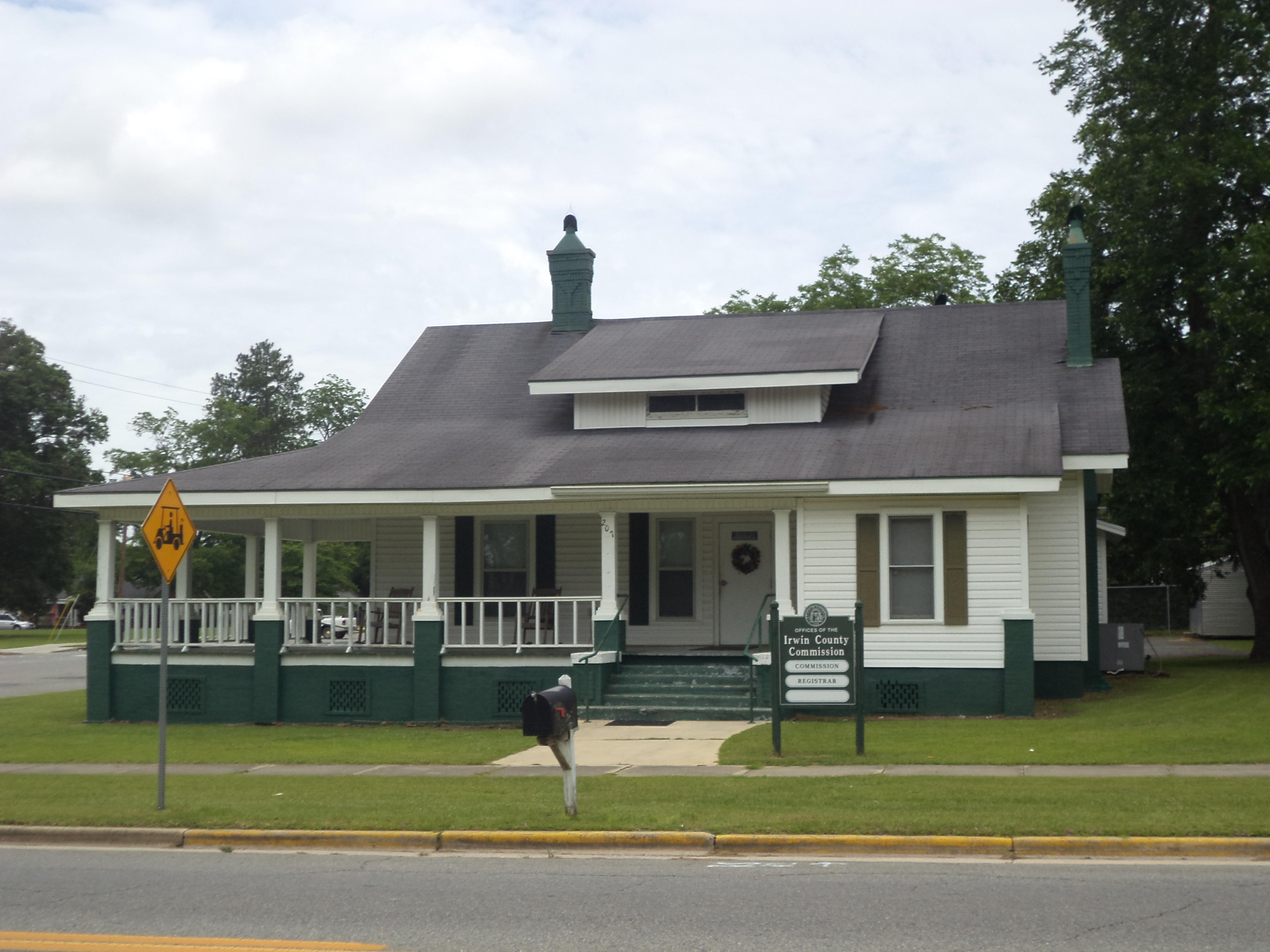 Irwin County Commission, Registrar on S. Irwin Ave., Ocilla, Irwin County, Georgia